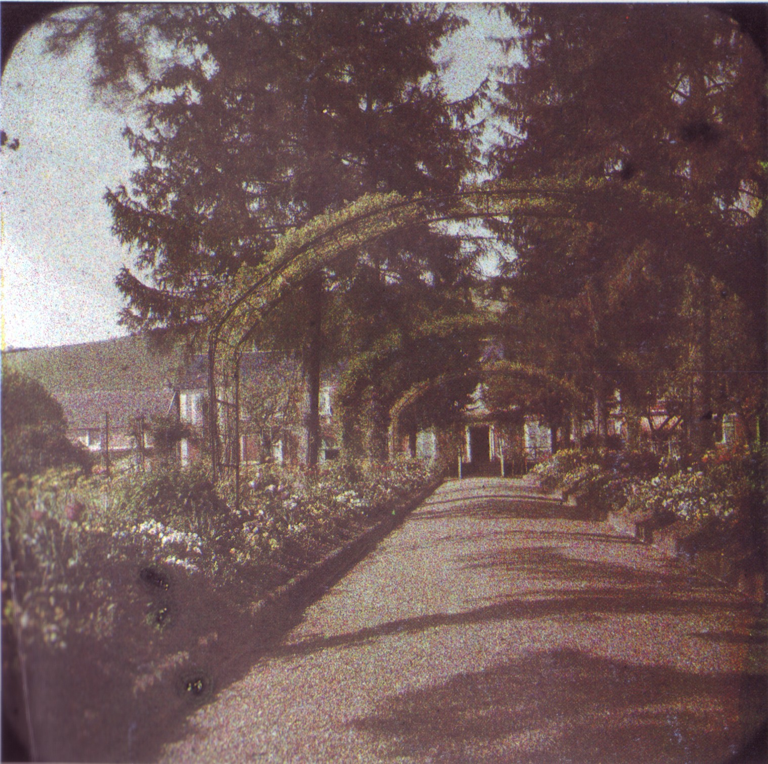 Monet and his gardens